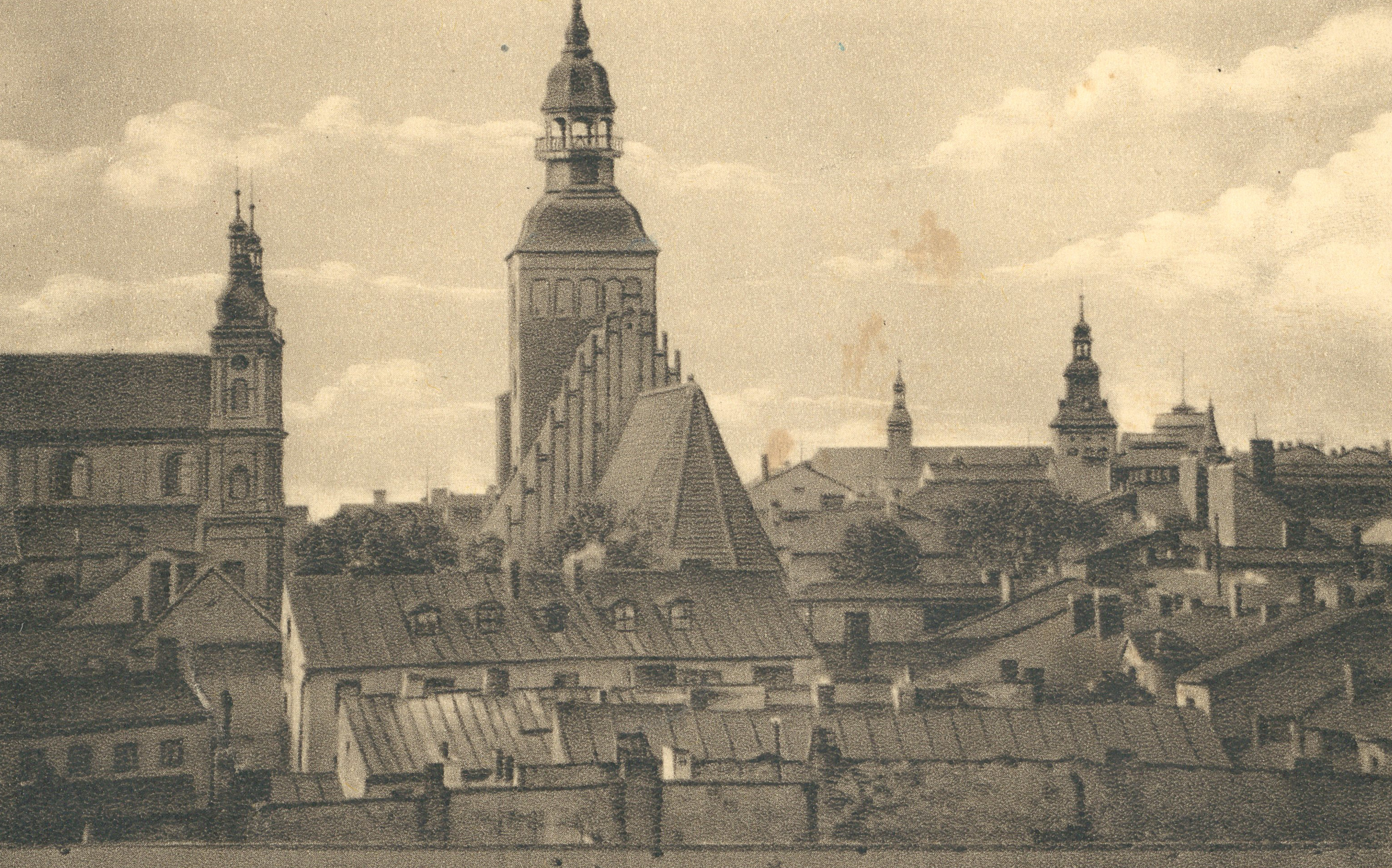 Old Town in Piotrków Trybunalski in Poland before 1939.